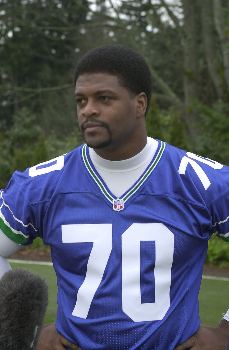 Seattle Seahawks player Michael Sinclair, 2002.